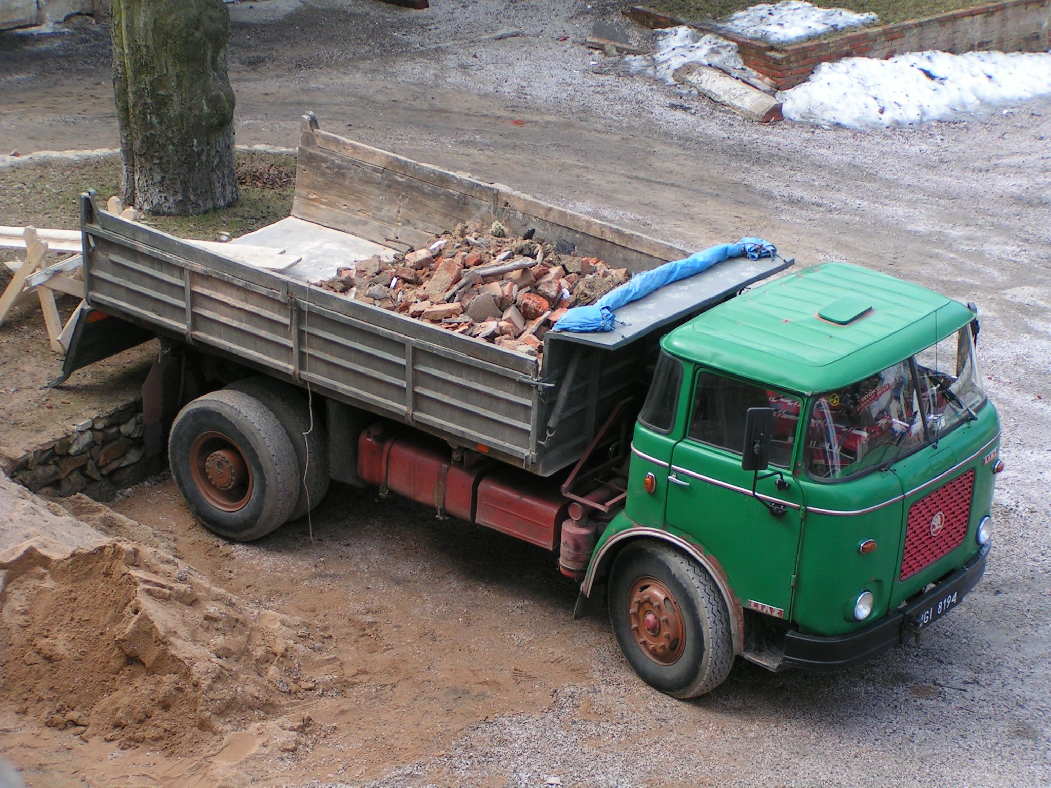 Škoda 706 MT in Staniszow (2005)